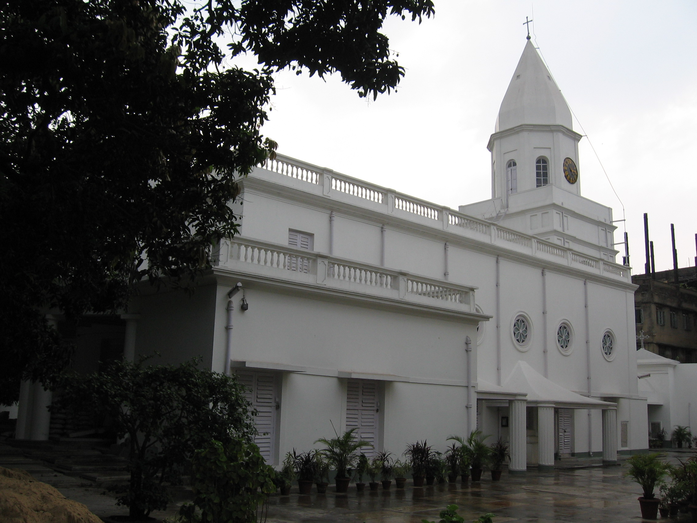 The Armenian Church of Nazareth, in Barrabazar, Calcutta, is one of the oldest places of Christian worship in Calcutta (1724).